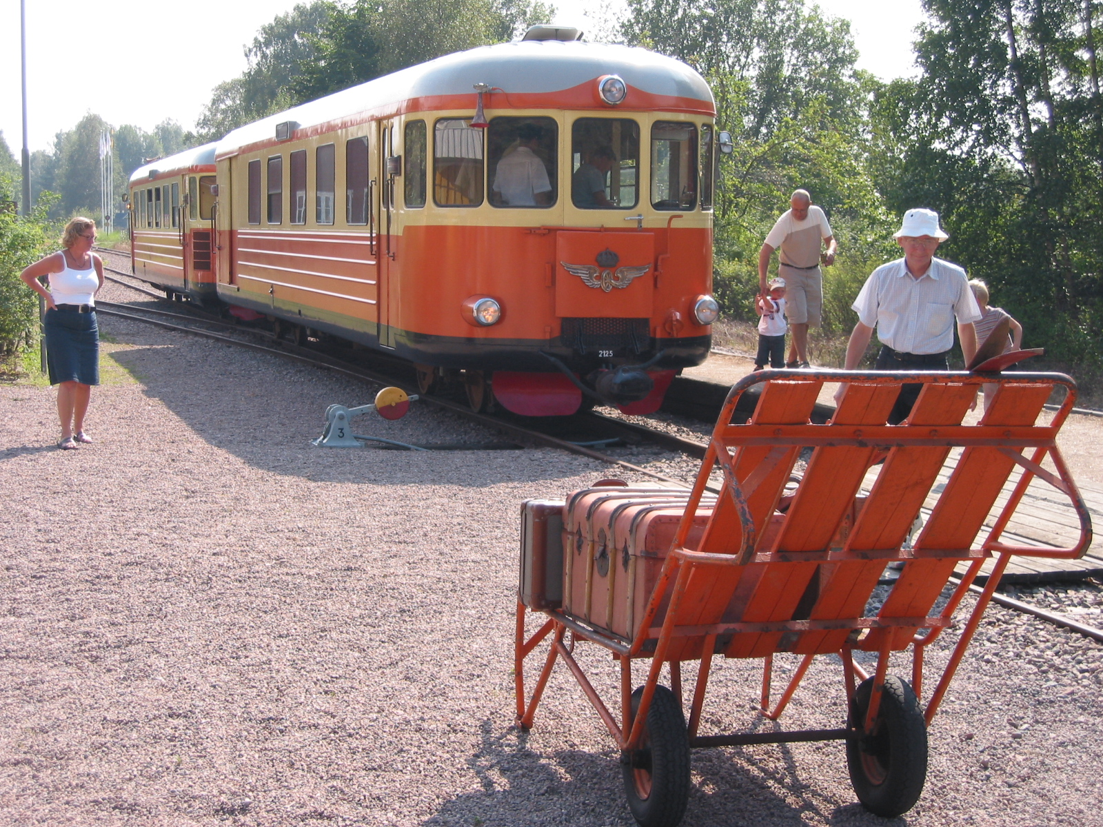 Railbus at Lundsbrunn station